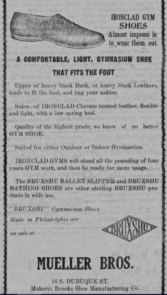 An advertisement for Bruxshu from the Daily Iowan on February 25, 1920